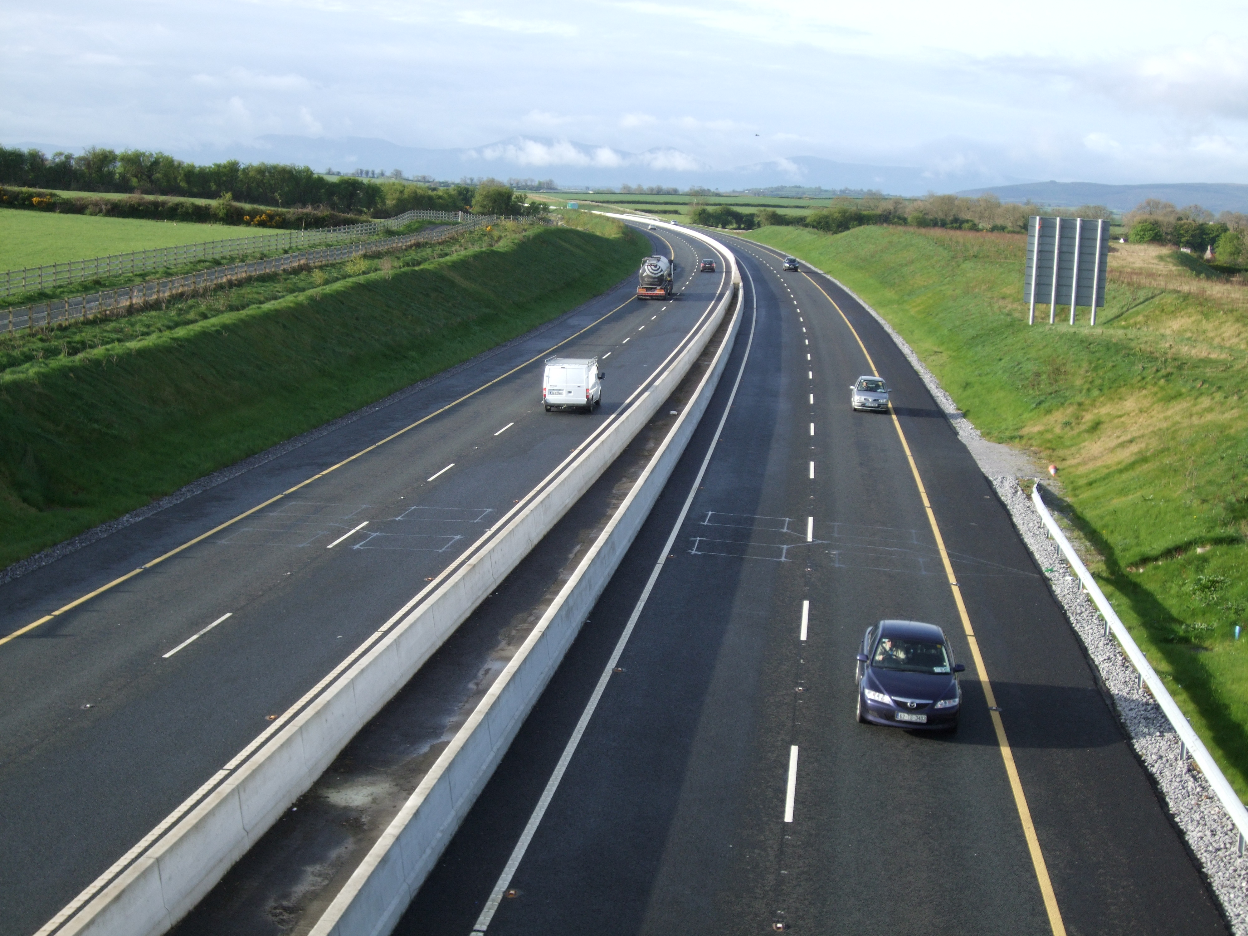 M8 Traffic counters between Cashel and Cahir (exits 9 and 10)